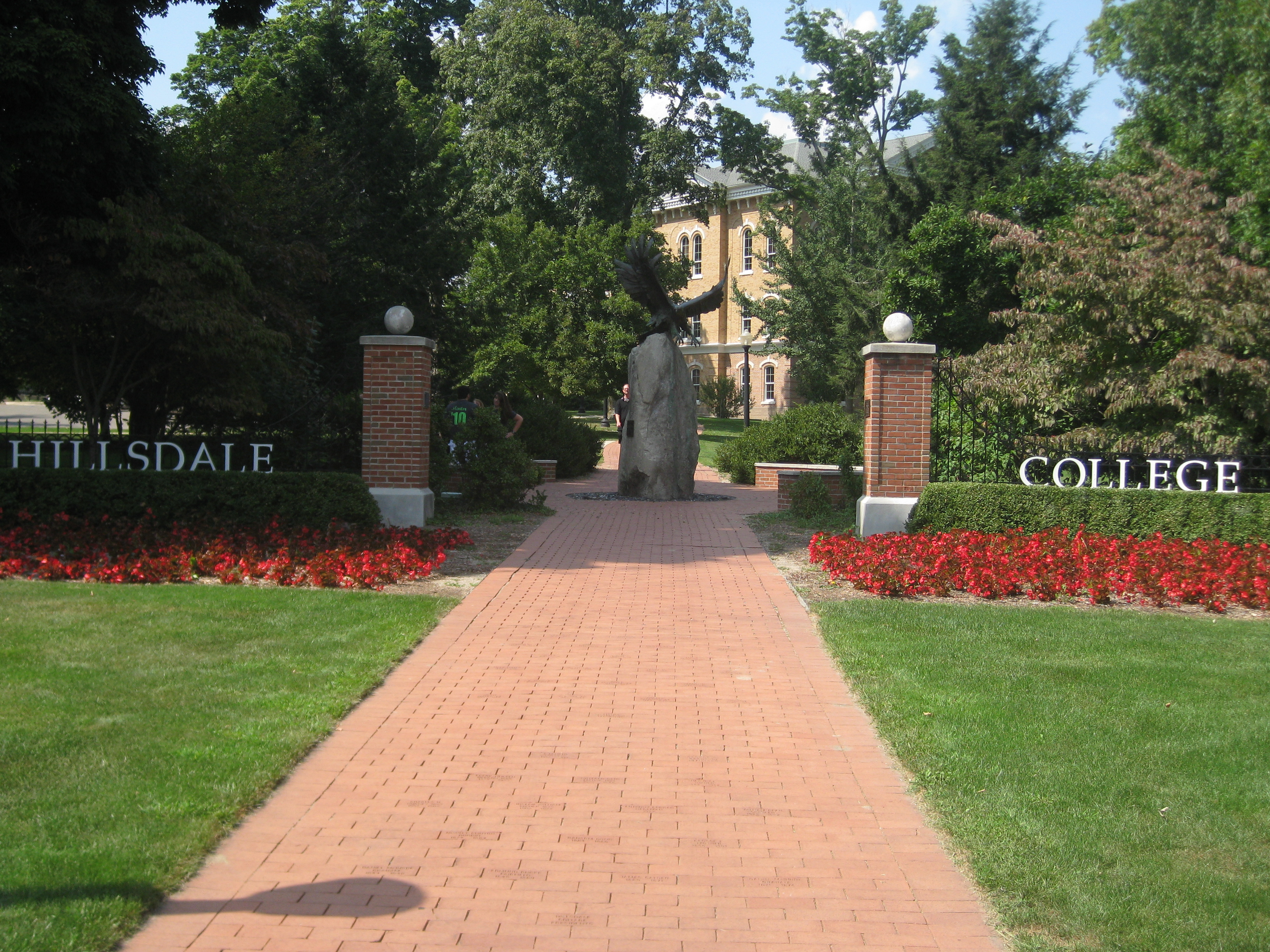 Hillsdale College entrance.